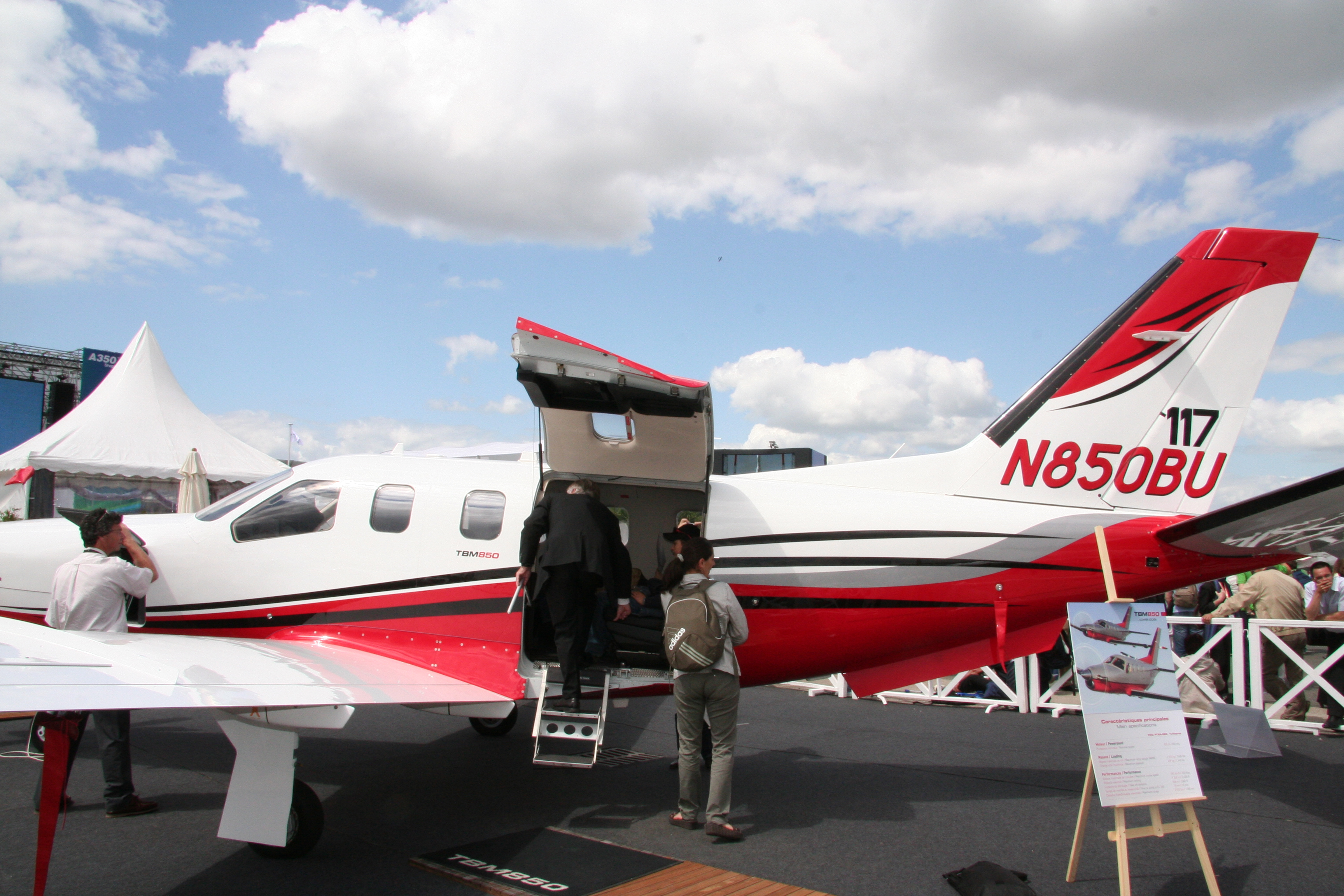 Socata TBM 850 - Paris Air Show 2009